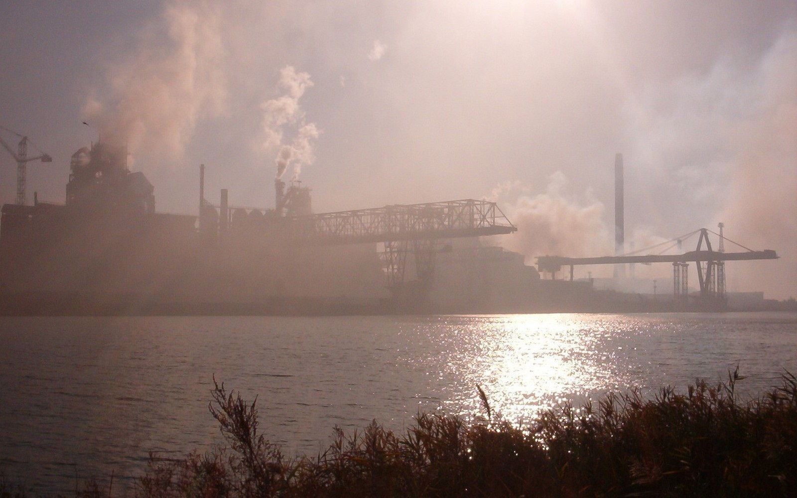 Azovstal. A view over the Blast Furnace department.